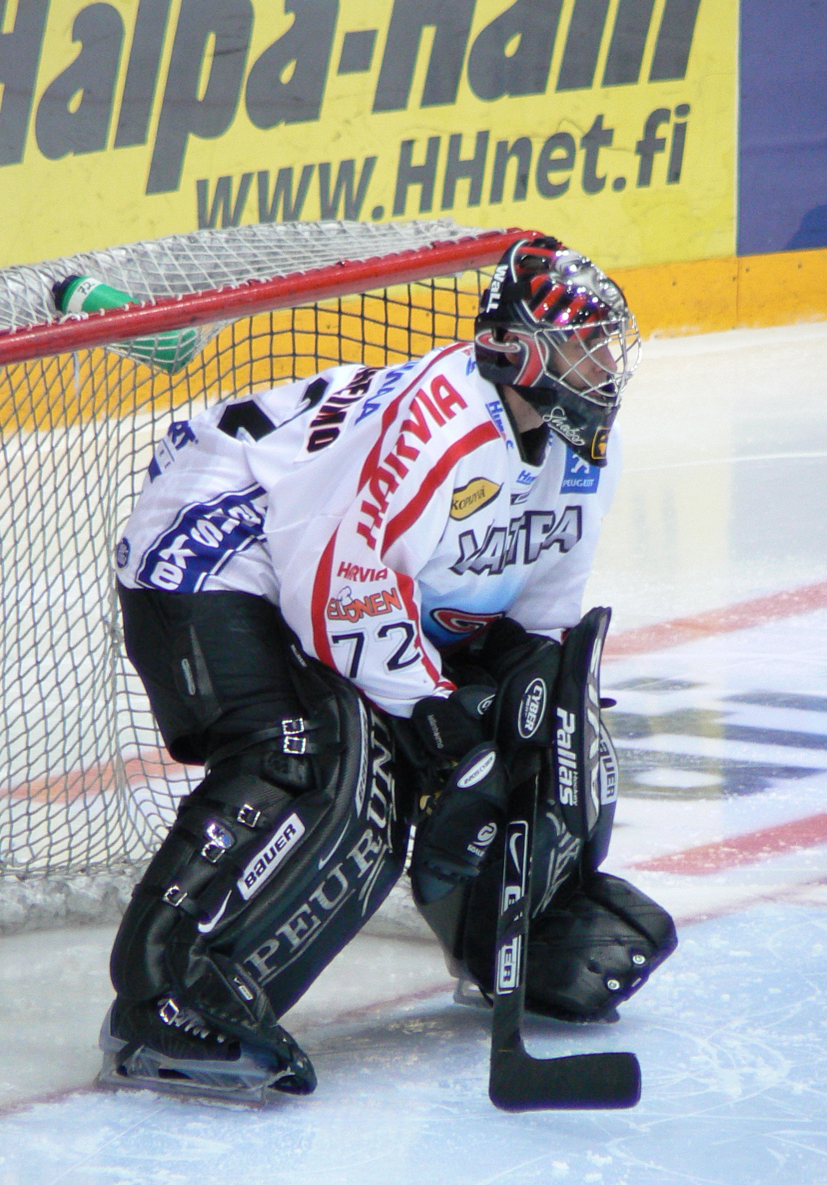 Finnish ice hockey goaltender Sinuhe Wallinheimo playing for JYP Jyväskylä in October 2007.